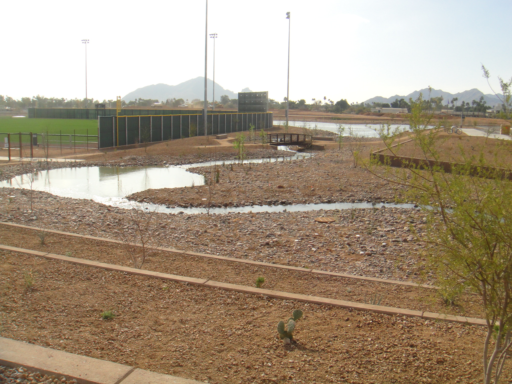 The stream running along the Colorado Rockies spring training practice fields at Salt River Fields at Talking Stick.